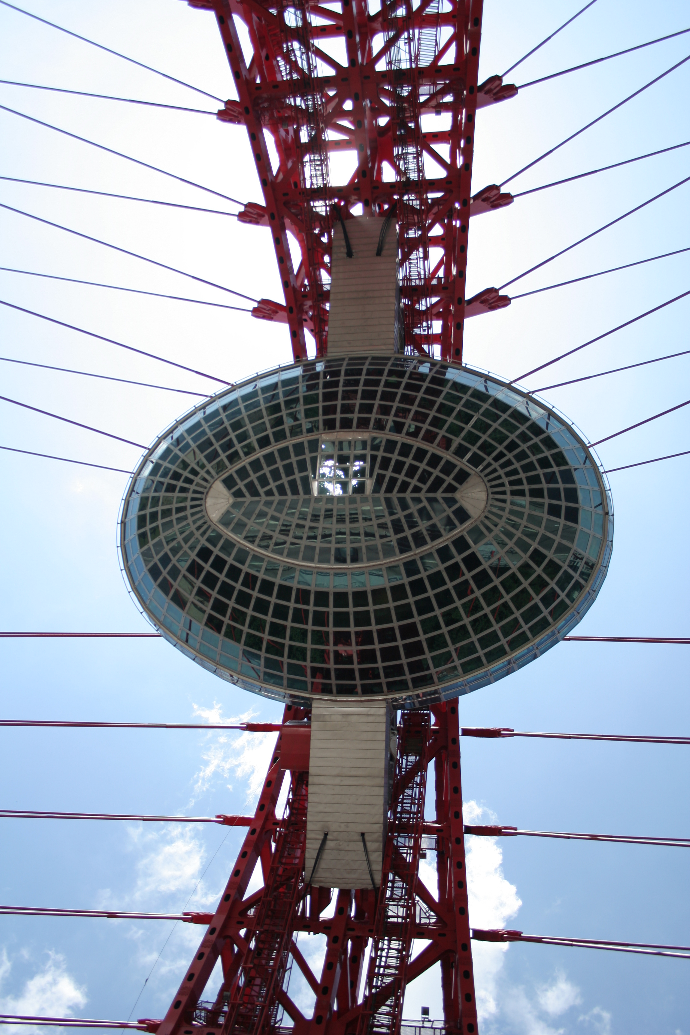 The Zhivopisny Bridge in Moscow. Detailled views